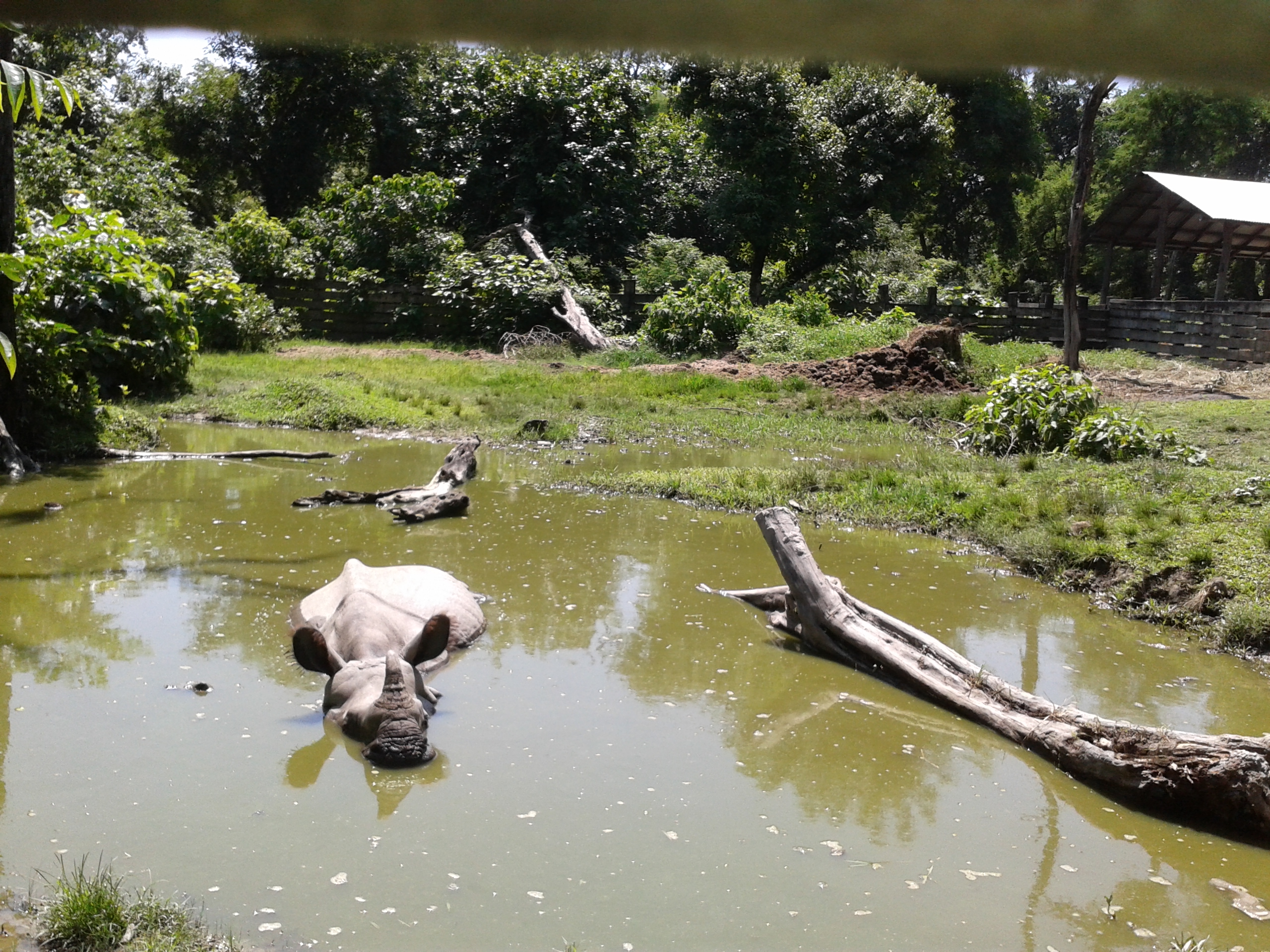 This is a mother rhino seen in Bardia National Park of Nepal. Rhino is a charismatic animal gifted by nature. Therefore, it is our prime responsibility to conserve these beautiful creatures. Perhaps, it is the time to prove so called wiseness of human.